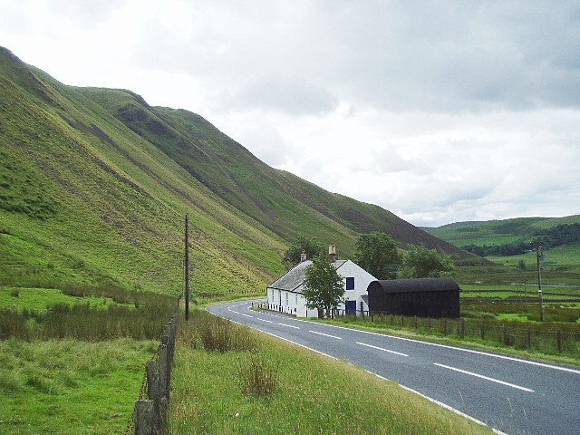 Dalveen Toll Cottage. This lonely house sits at the southern end of the Dalveen Pass on the A702